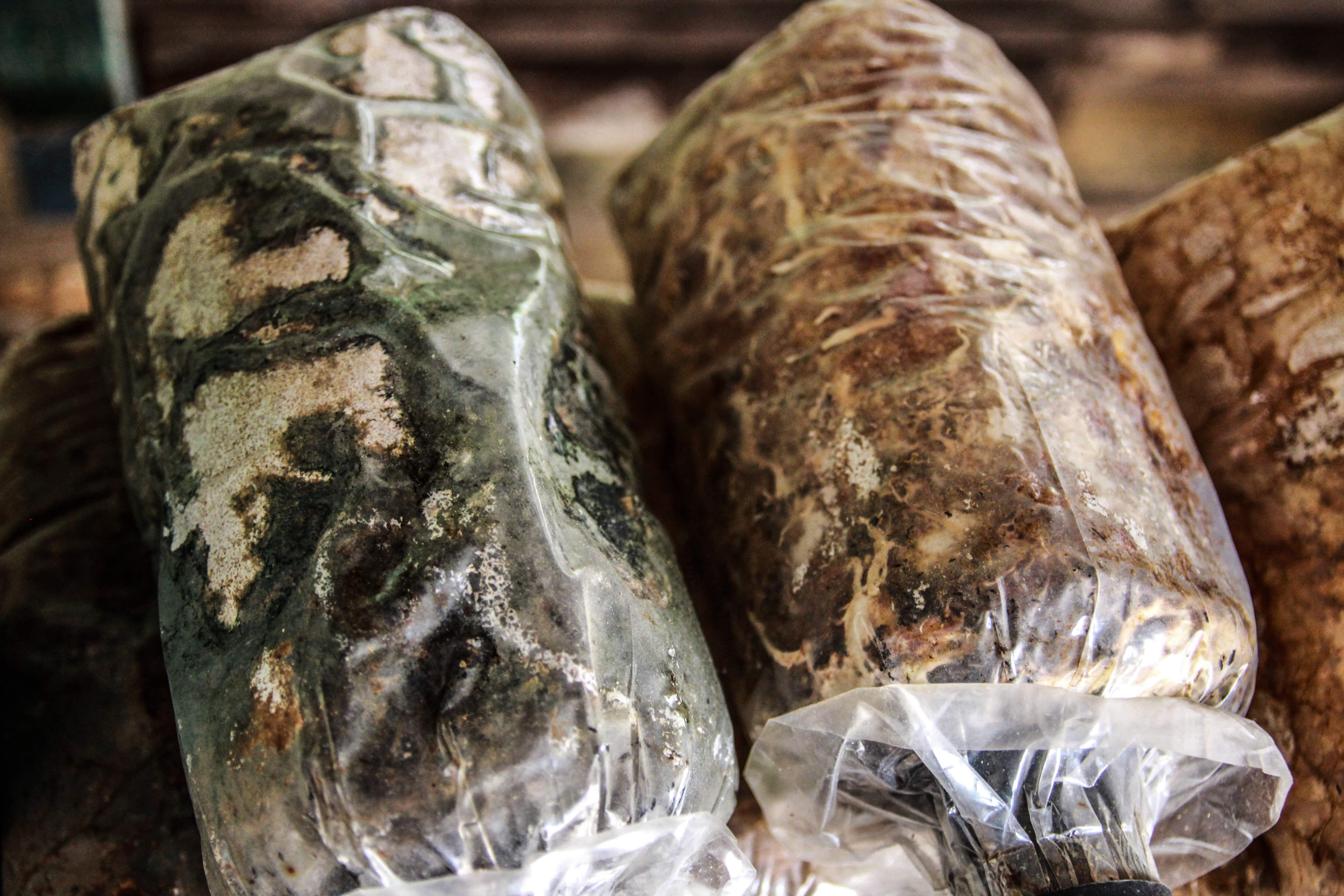 Fungiculture, Cameron Highlands, Malaysia